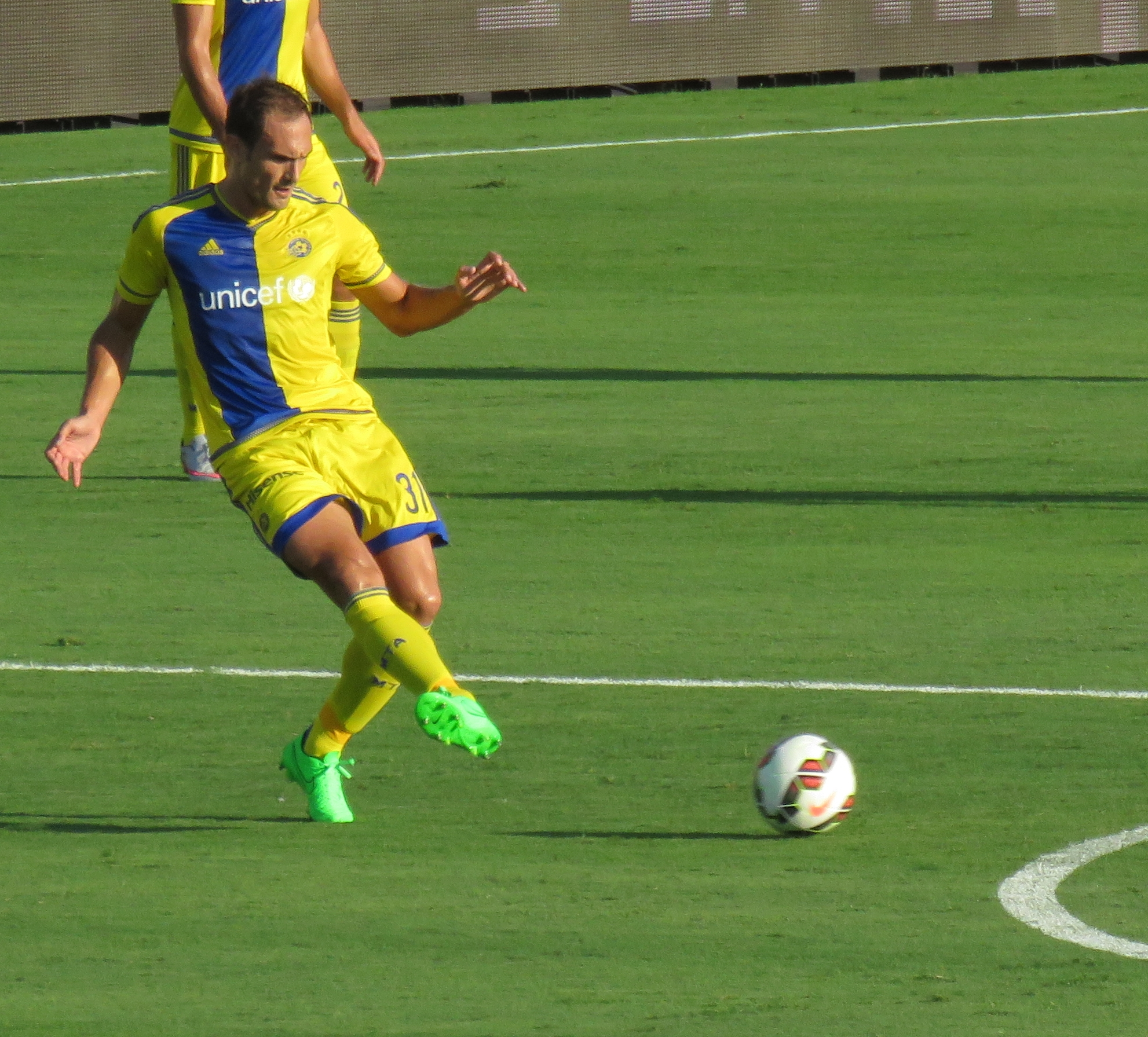 Maccabi Tel Aviv VS. Bnei Sakhnin 22/08/2015